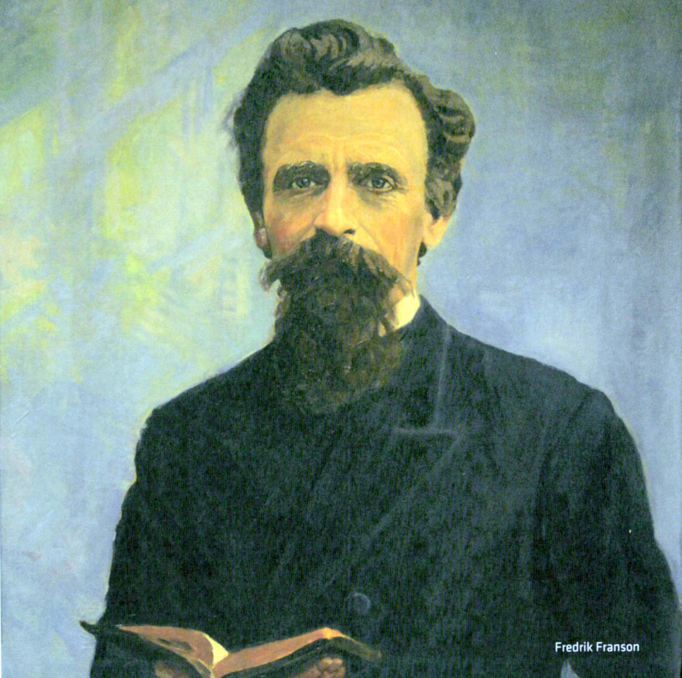 Fredrik Franson, Swedish-American Preacher